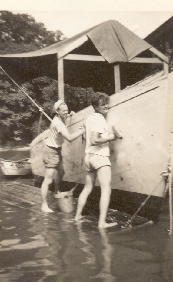 Cleaning the hull of a rowing boat by Sea Scout crew (Troop 60) based at the Cleveland Yacht Club, on e:Rocky River (Ohio) in Rocky River, Ohio.